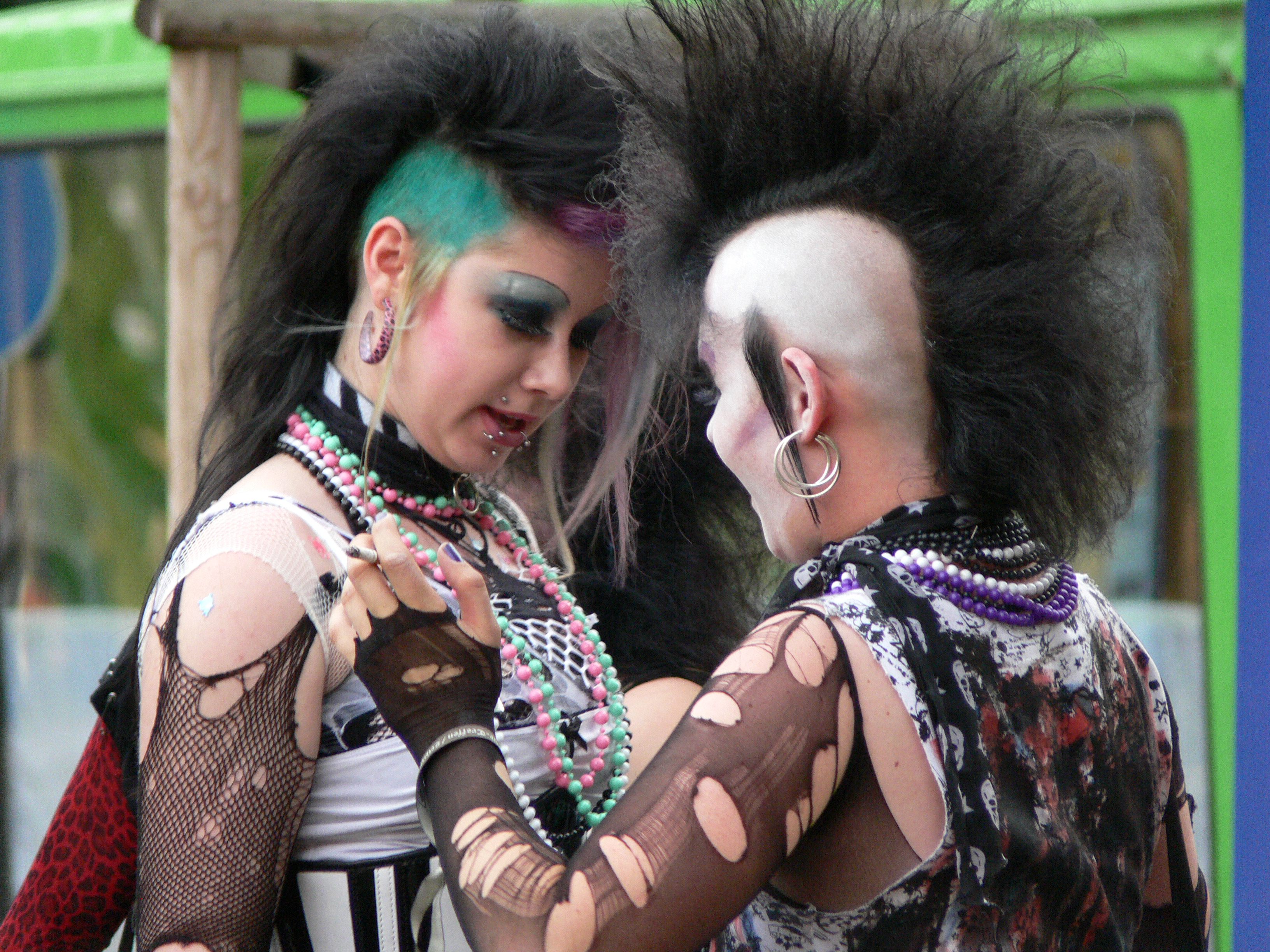 Two Goths at the Wave Gotik Treffen in Leipzig, Germany.